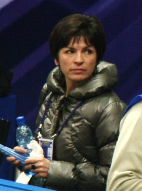 Anna Kondrashova at the 2010 Cup of Russia